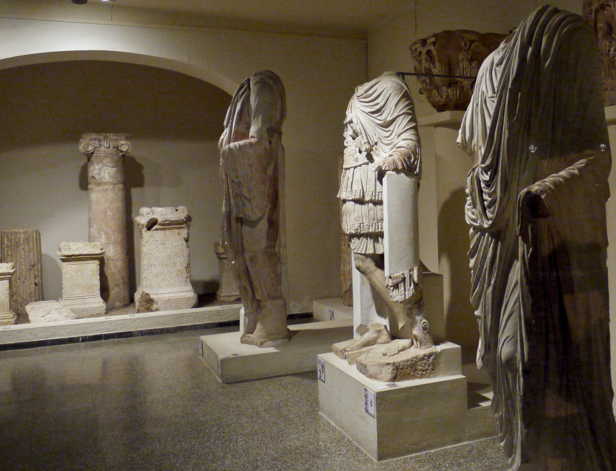 Museo Nacional Arquelògic de Tarragona, Catalonia, Spain.